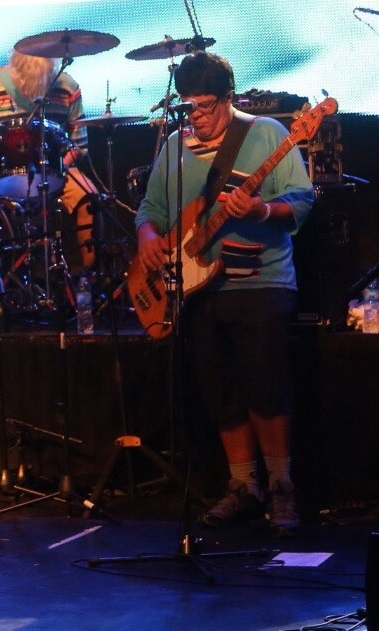 Buenos Aires 29 de marzo de 2015 -Se llevó a cabo en groove, en el barrio de Palermo, Maravillosa Música, el festival seccional de las bandas finalistas de la Ciudad Autónoma de Buenos Aires. El gran cierre estuvo a cargo de La Bersuit Vergarabat. Las bandas concursantes fueron: Banzai FC, Manada, A Secas Rock, InVenaS, Resaka y Ollantay.Ese mismo día en La Plaza Independencia de la capital tucumana, más de 20 mil personas vibraron junto al el festival regional del concurso con el cierre musical de Los Pericos.Las bandas que se hicieron escuchar fueron: Gonzalo Farfán y su banda (Rosario de Lerma, Salta), Calle sin Nombre (Yerba Buena, Tucumán), Bandera Animal (San Pedro, Jujuy), Musquy Wayma (Pomán, Catamarca).